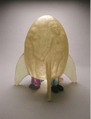 Nuclear Family by Carol Milne Kiln-Cast lead crystal 2004